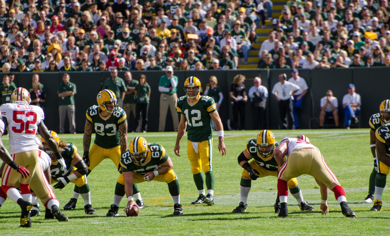 San Francisco 49ers vs. Green Bay Packers at Lambeau Field on September 9, 2012. Photo by Mike Morbeck.